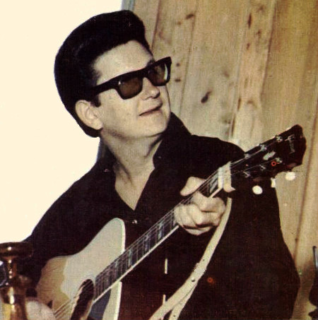 Photo of Roy Orbison.